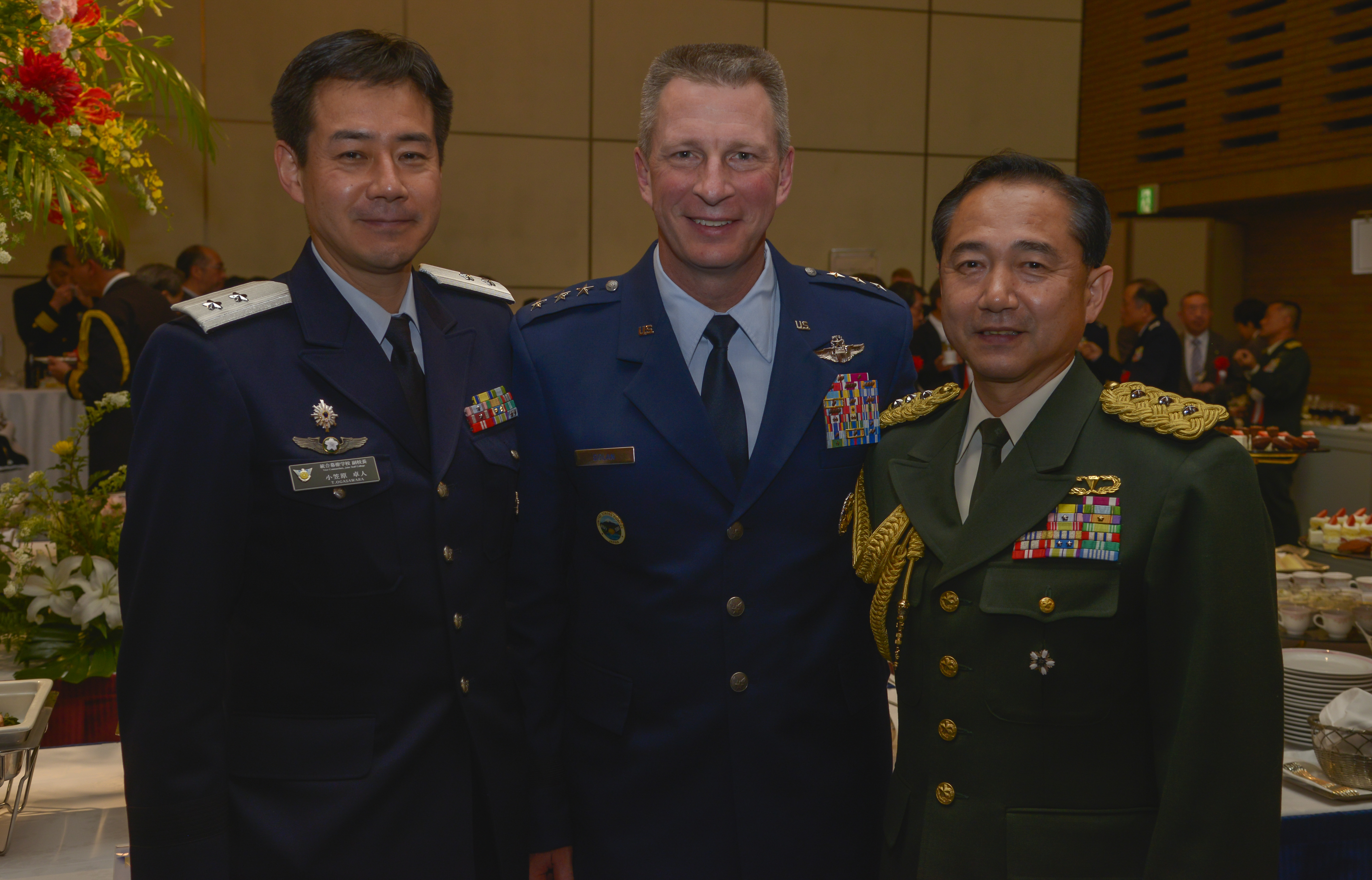 Lt. Gen. John L. Doland (middle), U.S. Forces, Japan and 5th Air Force commander, center, poses for a photo with Japan Air Self-Defense Force Maj. Gen. Takuto Ogasawara, Joint Staff College Ministry of Defense vice commandant (left), and Japan Ground Self-Defense Force Lt. Gen. Koji Yamazaki (right), JSMD vice chief of staff, during the Japan Joint Staff 10th anniversary ceremony at Hotel Grand Hill, Ichigaya, Japan, Feb. 17, 2016. The event consisted of opening remarks from senior leadership, breaking sake barrels and discussions between military personnel to strengthen bilateral relationships.